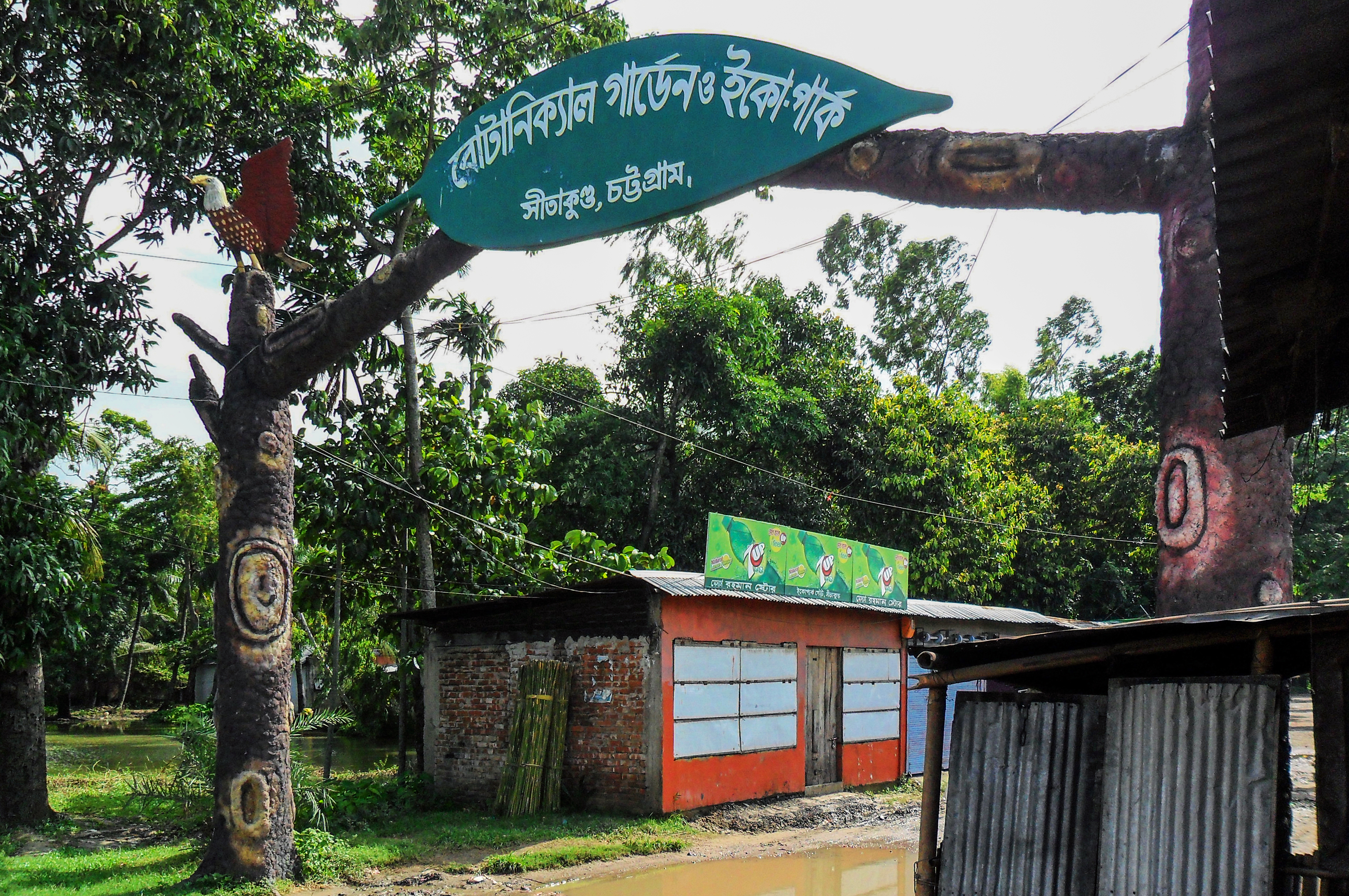 Entrance, Botanical Garden and Eco-Park, Sitakunda, Chattogram, Bangladesh.